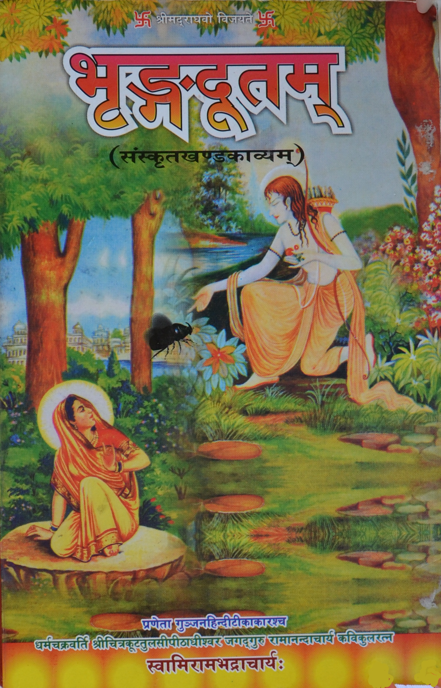 Cover page of Bhrngadutam